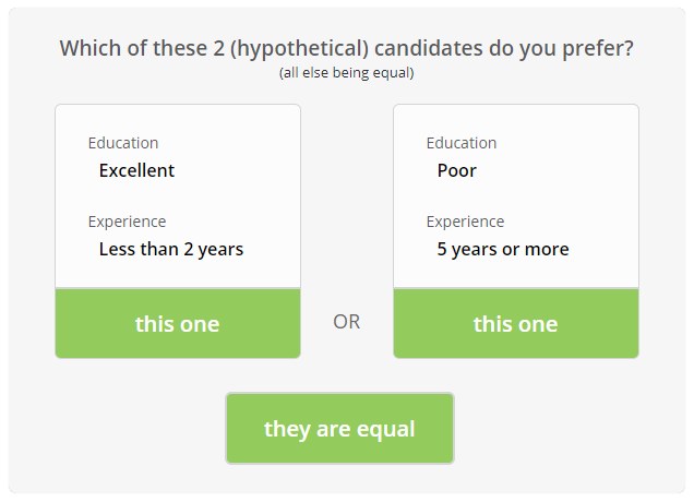 A screen dump of an application posing a pairwise-ranking question to a decision-maker during a PAPRIKA decision-making process.